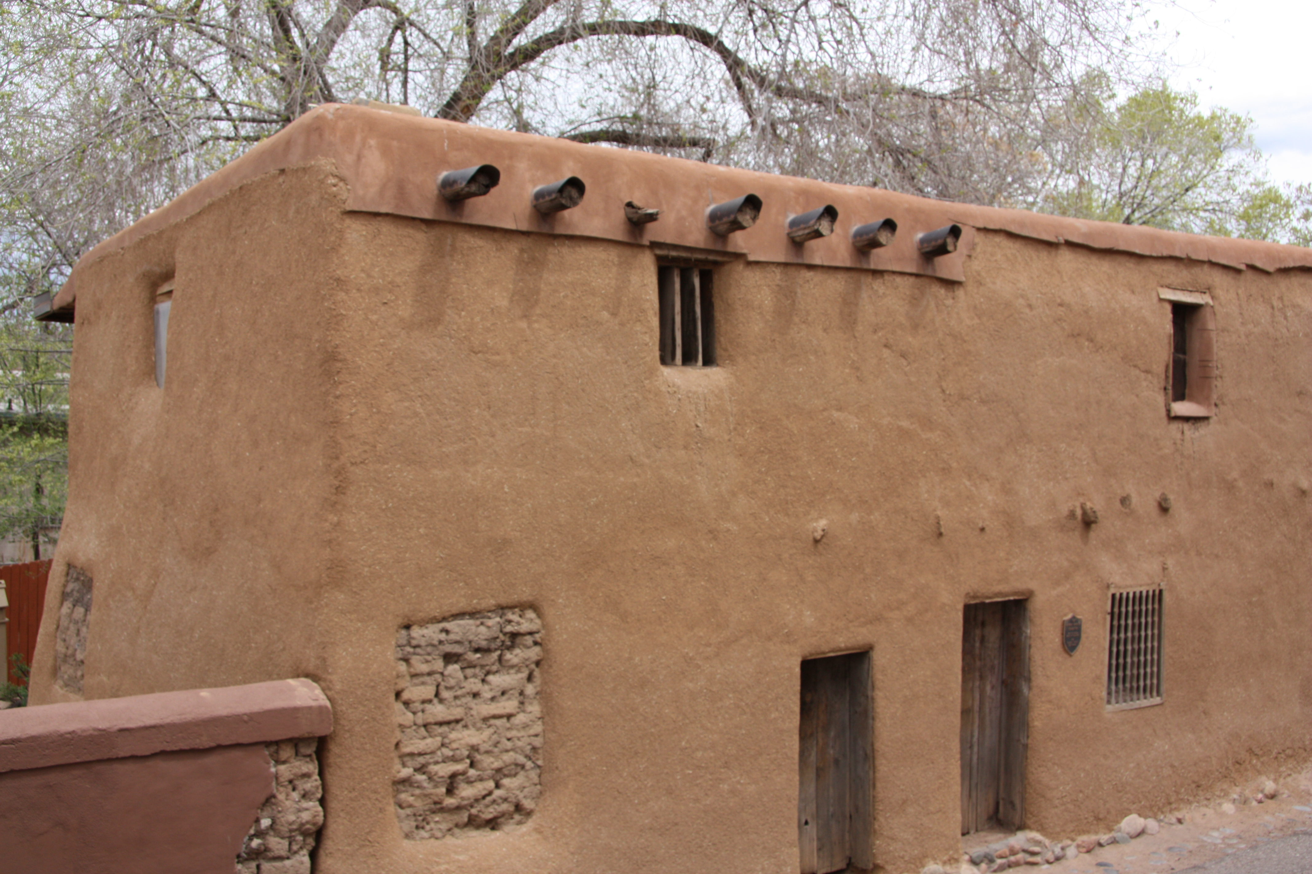 Barrio de Analco Historic District Oldest House